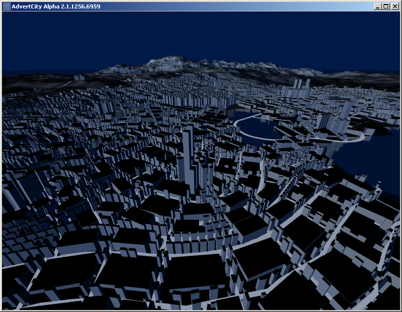 Screenshot from the game AdvertCity